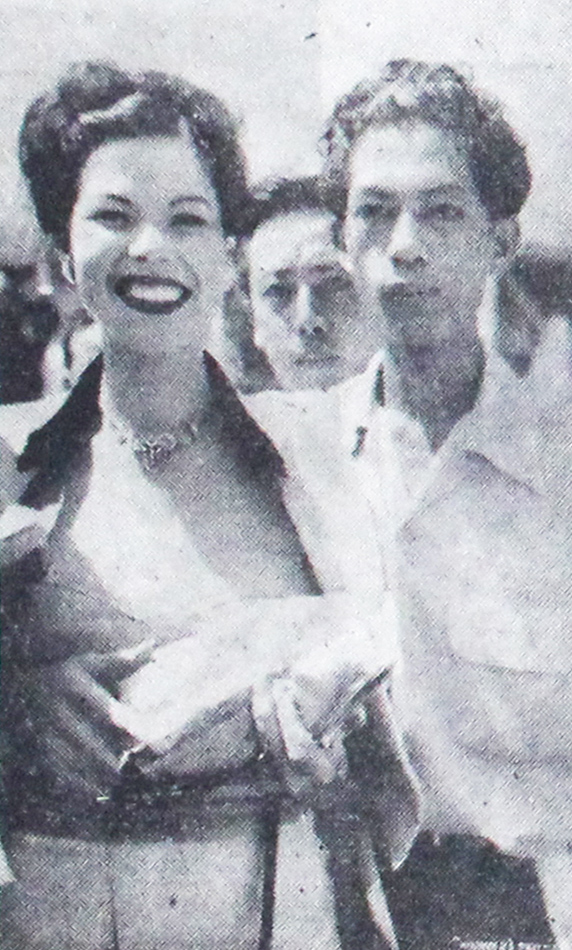 Laya Raki (left) with an Indonesian reporter in Jakarta, before the filming of The Seekers